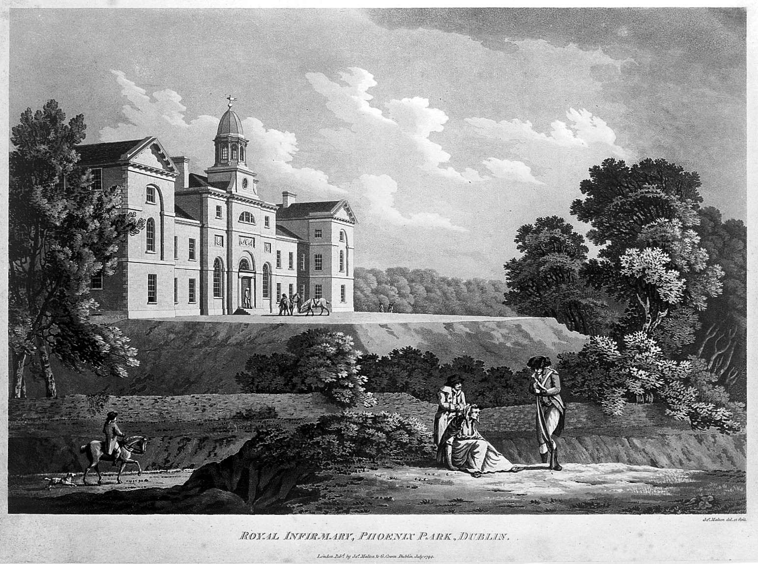 Royal Infirmary and grounds, Dublin, Ireland. Aquatint by J. Malton, 1794, after himself. Wellcome Images Keywords: James Malton